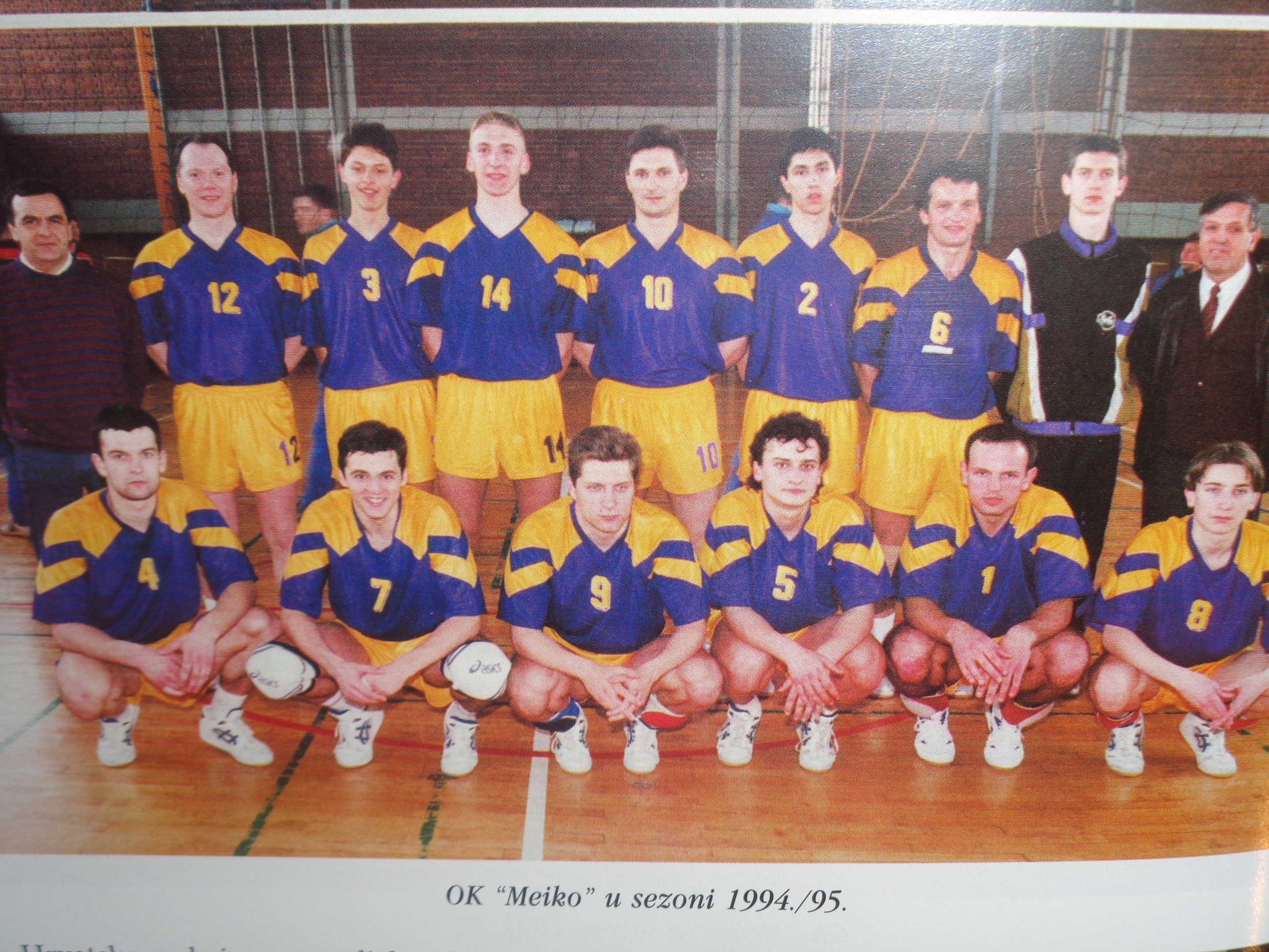 OK "Meiko" volleyball team from 1994/95, Čakovec, Croatia